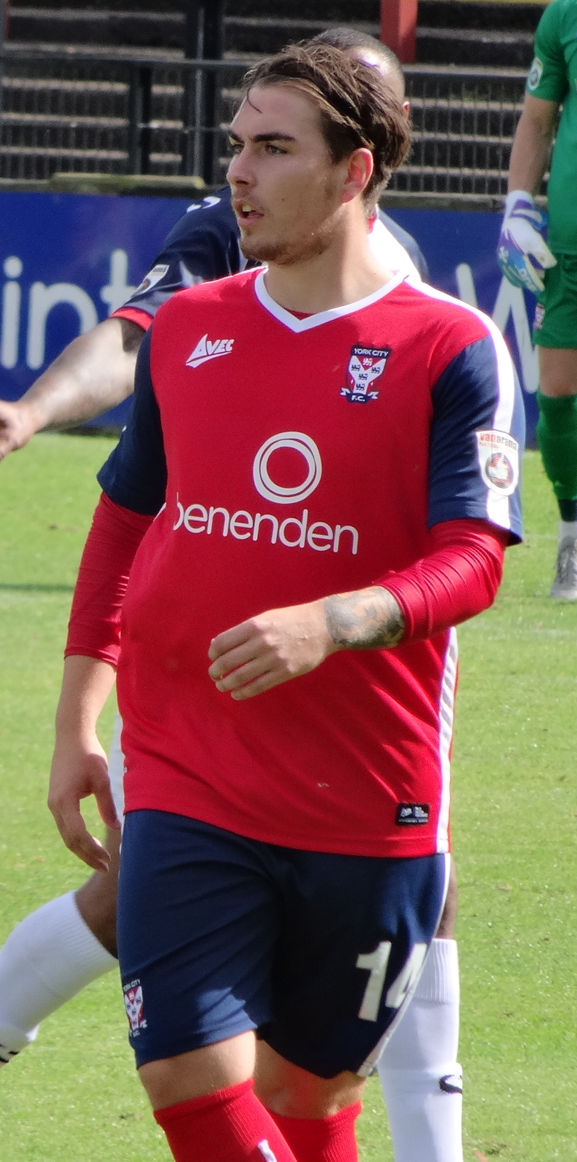 Sam Muggleton playing for York City against AFC Telford United at Bootham Crescent, York on 5 August 2017